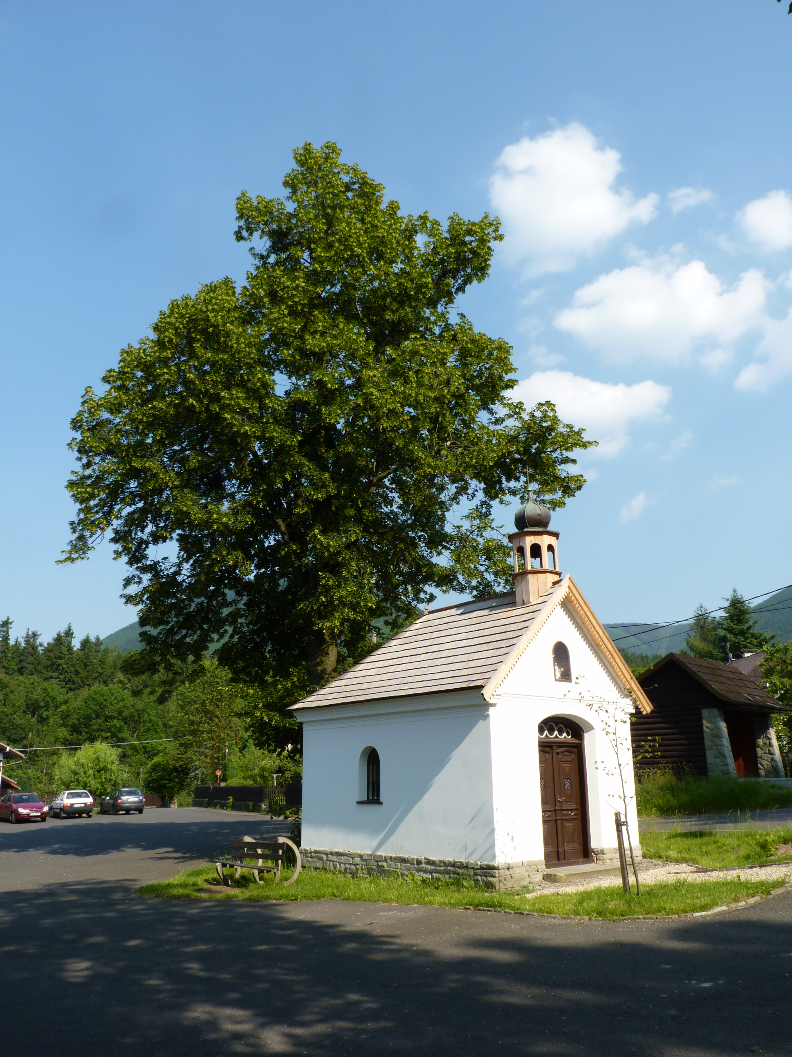 Chapel in Trojanovice, Czech Republic